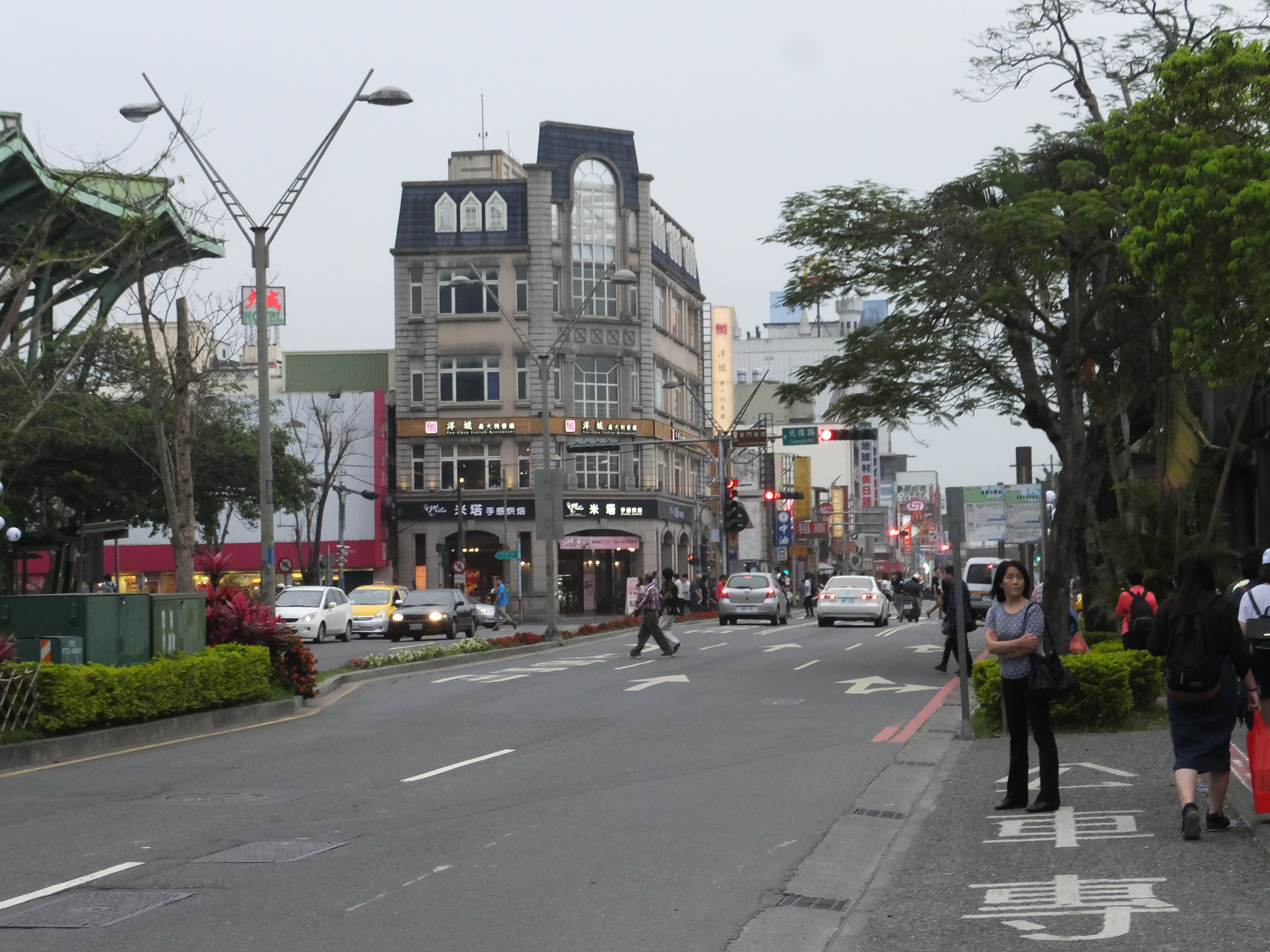 宜興路 Yixing Road